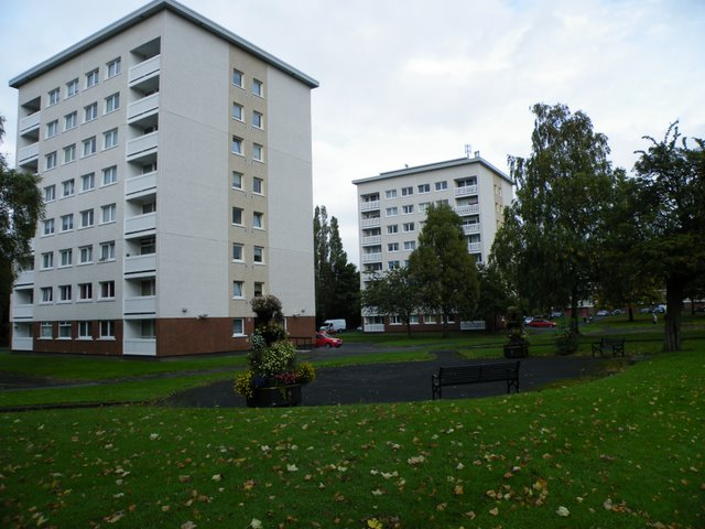 St Andrews Crescent Attractive grounds surround these renovated flats, viewed from St Andrews Drive.